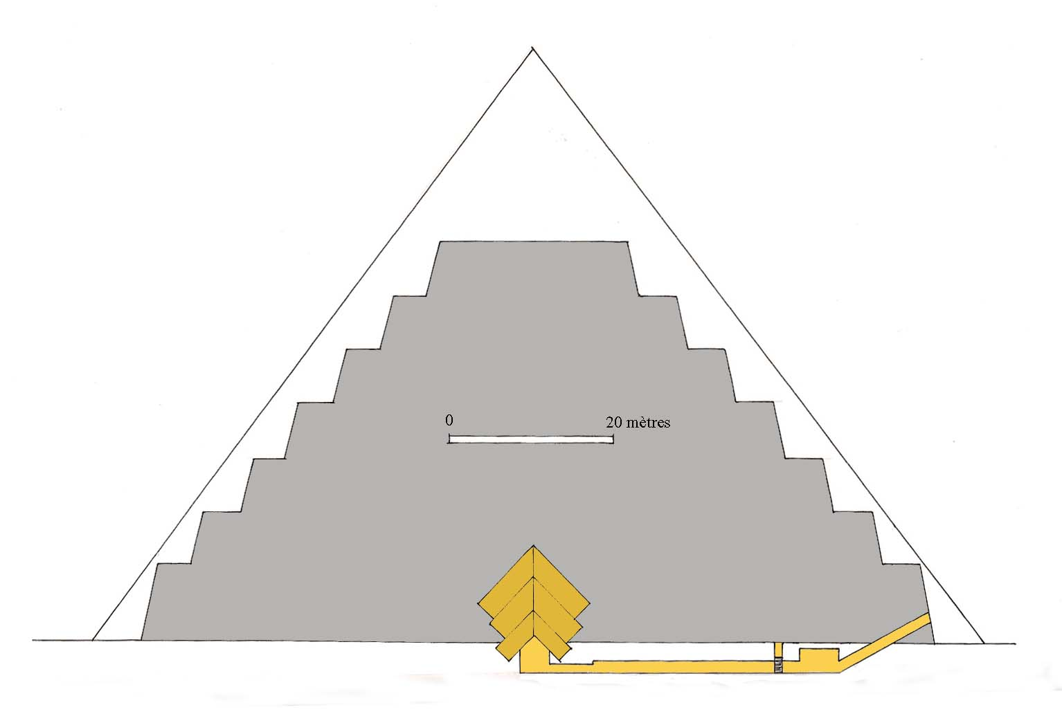 Plan of the pyramid of Neferirkare at Abousir